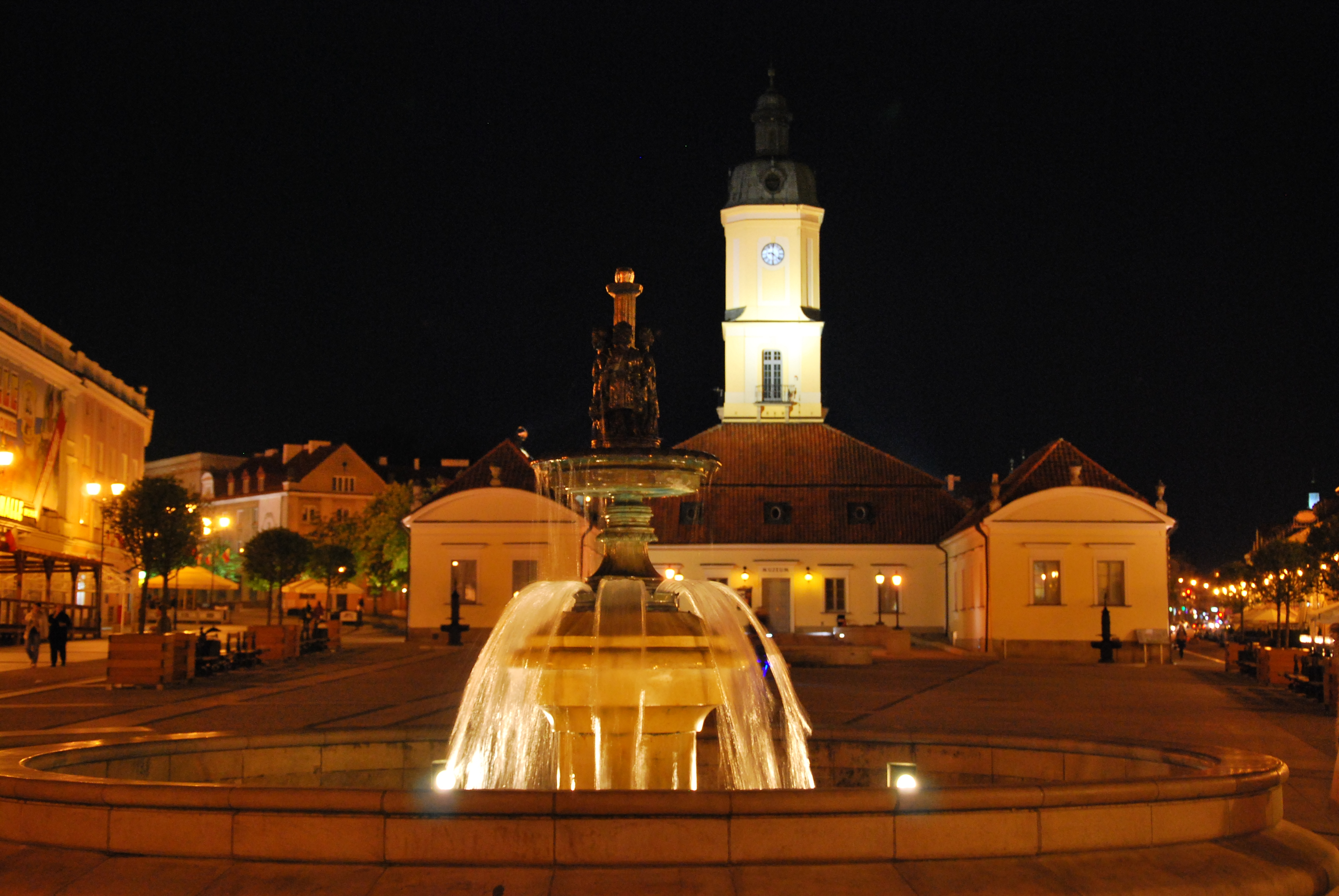 Fountain at Kościuszko Square and City Hall in Białystok